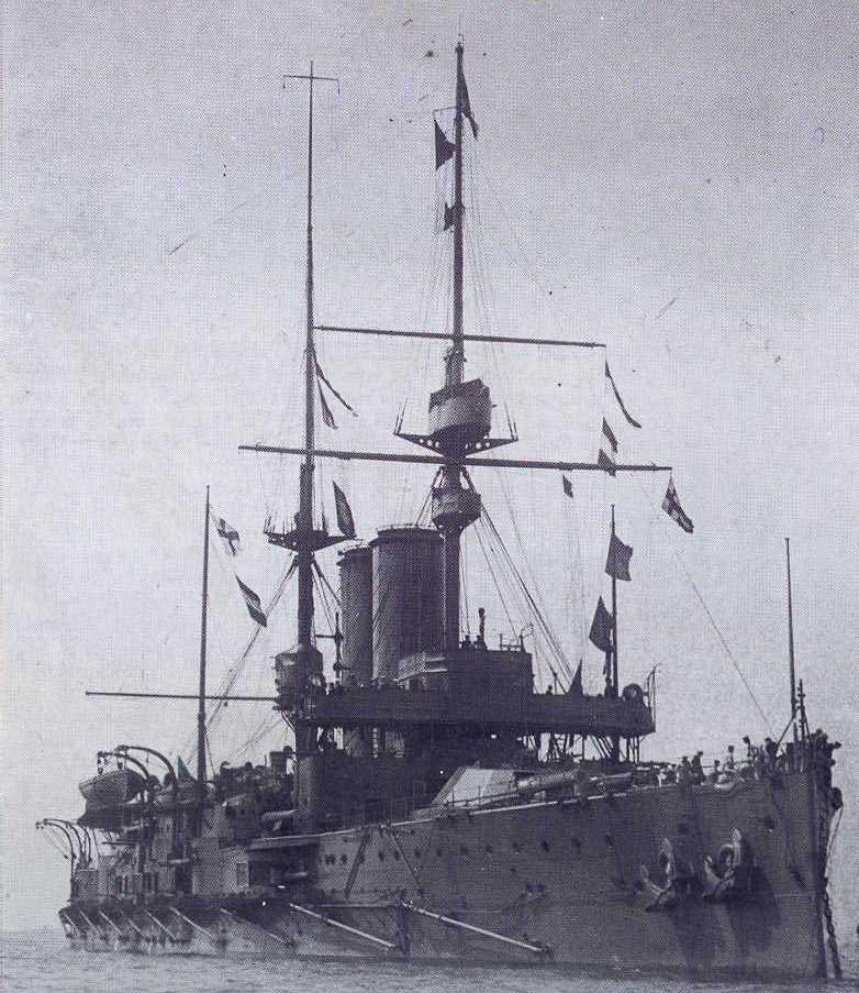 HMS King Edward VII (1903) in early 1907